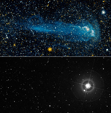 NASA's Galaxy Evolution Explorer discovered an exceptionally long comet-like tail of material trailing behind Mira -- a star that has been studied thoroughly for about 400 years. So, why had this tail gone unnoticed for so long? The answer is that nobody had scanned the extended region around Mira in ultraviolet light until now. As this composite demonstrates, the tail is only visible in ultraviolet light (top), and does not show up in visible light (bottom). Incidentally, Mira is much brighter in visible than ultraviolet light due to its low surface temperature of about 3,000 kelvin (about 5,000 degrees Fahrenheit). The Galaxy Evolution Explorer, one of NASA's Small Explorer class missions, is the first all-sky survey in ultraviolet light. It found Mira's tail by chance during a routine scan. Since the mission's launch more than four years ago, it has surveyed millions of galaxies and stars. Such vast collections of data often bring welcome surprises, such as Mira's unusual tail. The visible-light image is from the United Kingdom Schmidt Telescope in Australia, via the Digitized Sky Survey, a program affiliated with the Space Telescope Science Institute, Baltimore, Md.